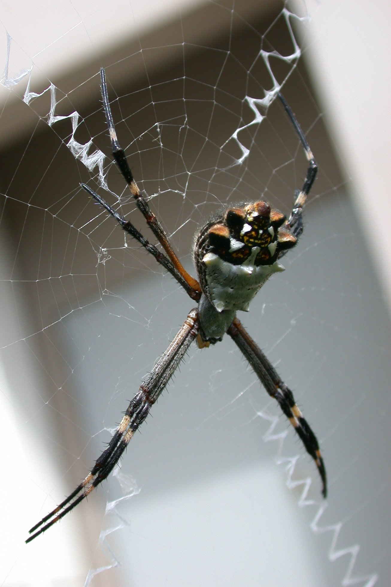 Same Argiope argentata; taken in Carlsbad, California.